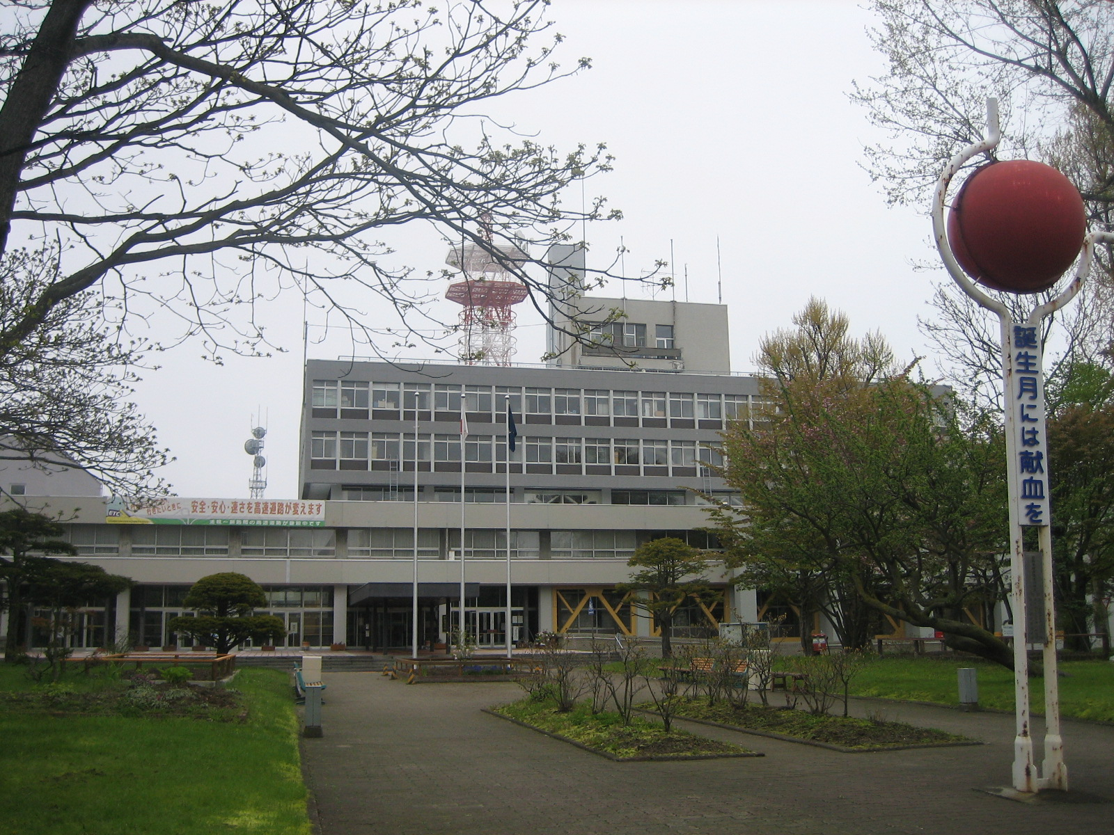 Kushiro City Hall